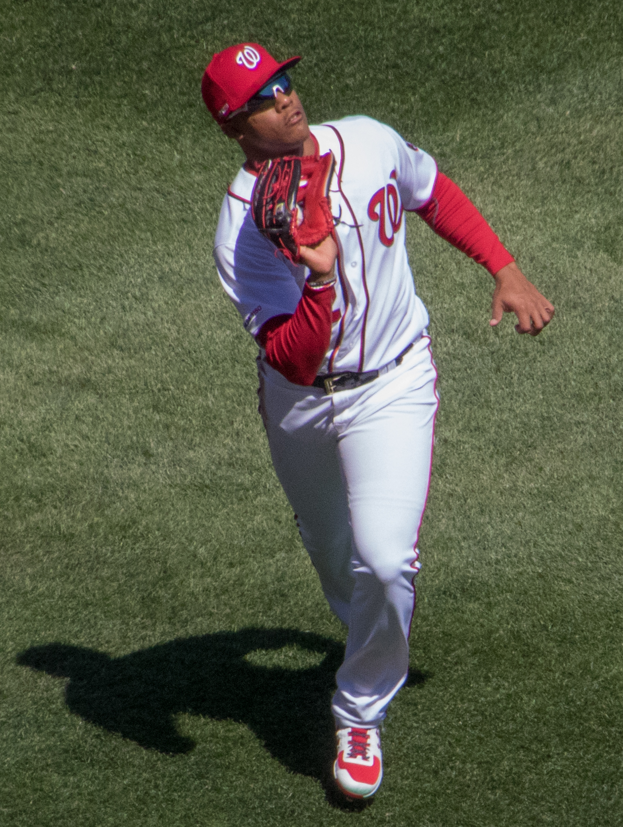 Juan Soto of the Washington Nationals fields a fly ball during a 2019 game at Nationals Park in Washington, D.C.